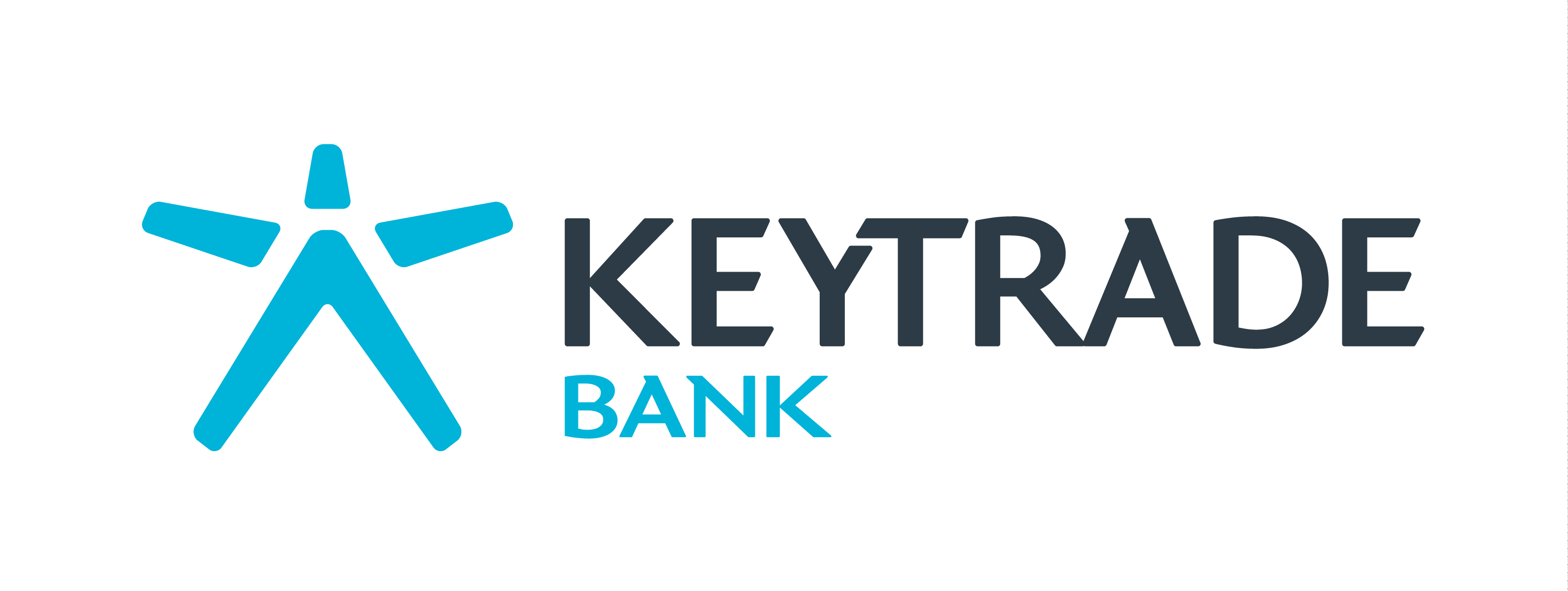 LOGO KEYTRADE BANK 2014